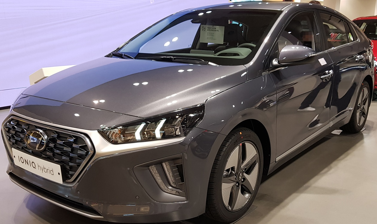 Hyundai Ioniq